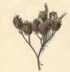 Stainton’s Natural History of the Tineina (1855–1873): Coleophora argentula sprig of Achillea millefolium with larva cases attached to the seeds